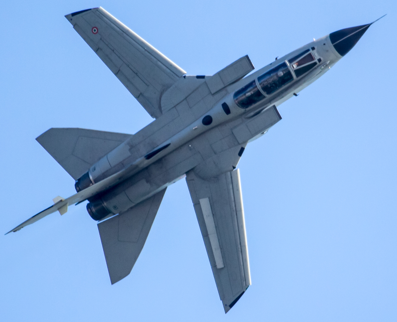 Italian Air Force Tornado at the 2014 Rome International Air Show